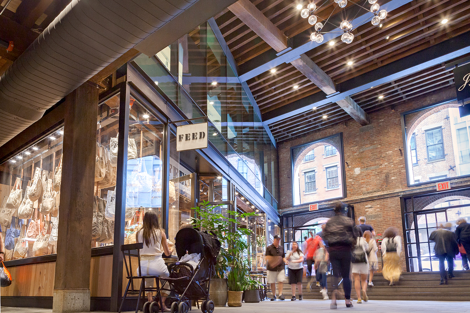 Center passageway through Empire Stores connecting Water Street to the open-air courtyard by the waterfront. New York City-based architecture firm Studio V Architecture converted the previously abandoned Civil War era coffeehouse into a mixed-use development consisting of office, commercial, and retail space. The renovation was completed in 2017. A few of the retailers located here are West Elm's global flagship store, Detroit-based watchmaker Shinola, and the café and accessories store, FEED Projects. (Photo gallery of DUMBO, Brooklyn)